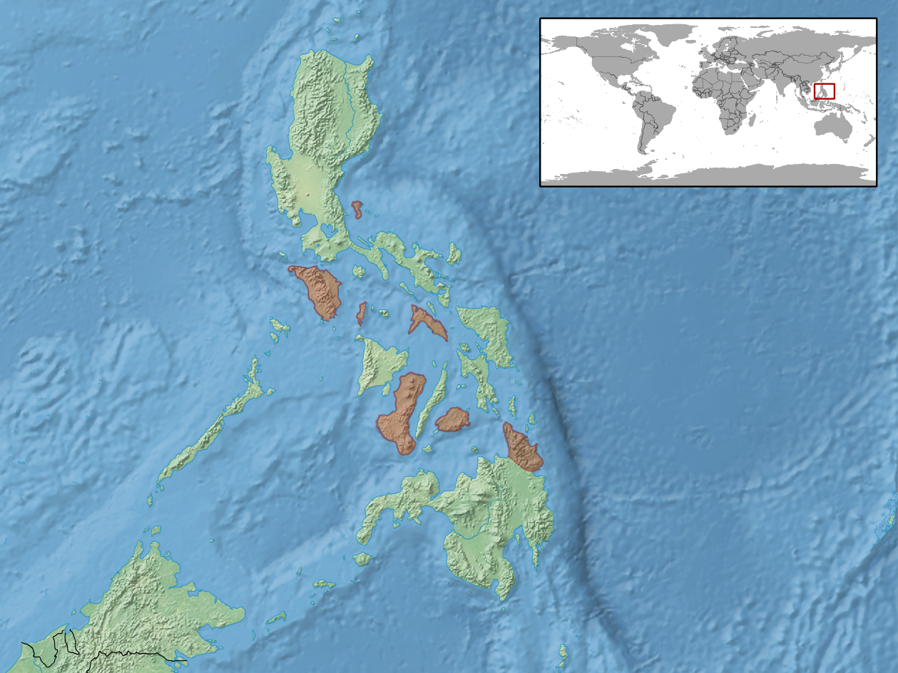 geographic distribution of Lipinia auriculata